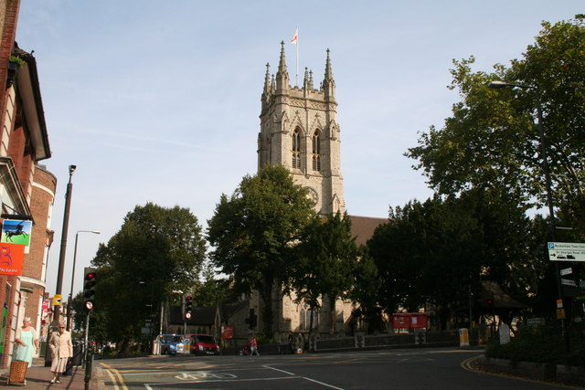 St. George's Parish Church, Beckenham, Kent